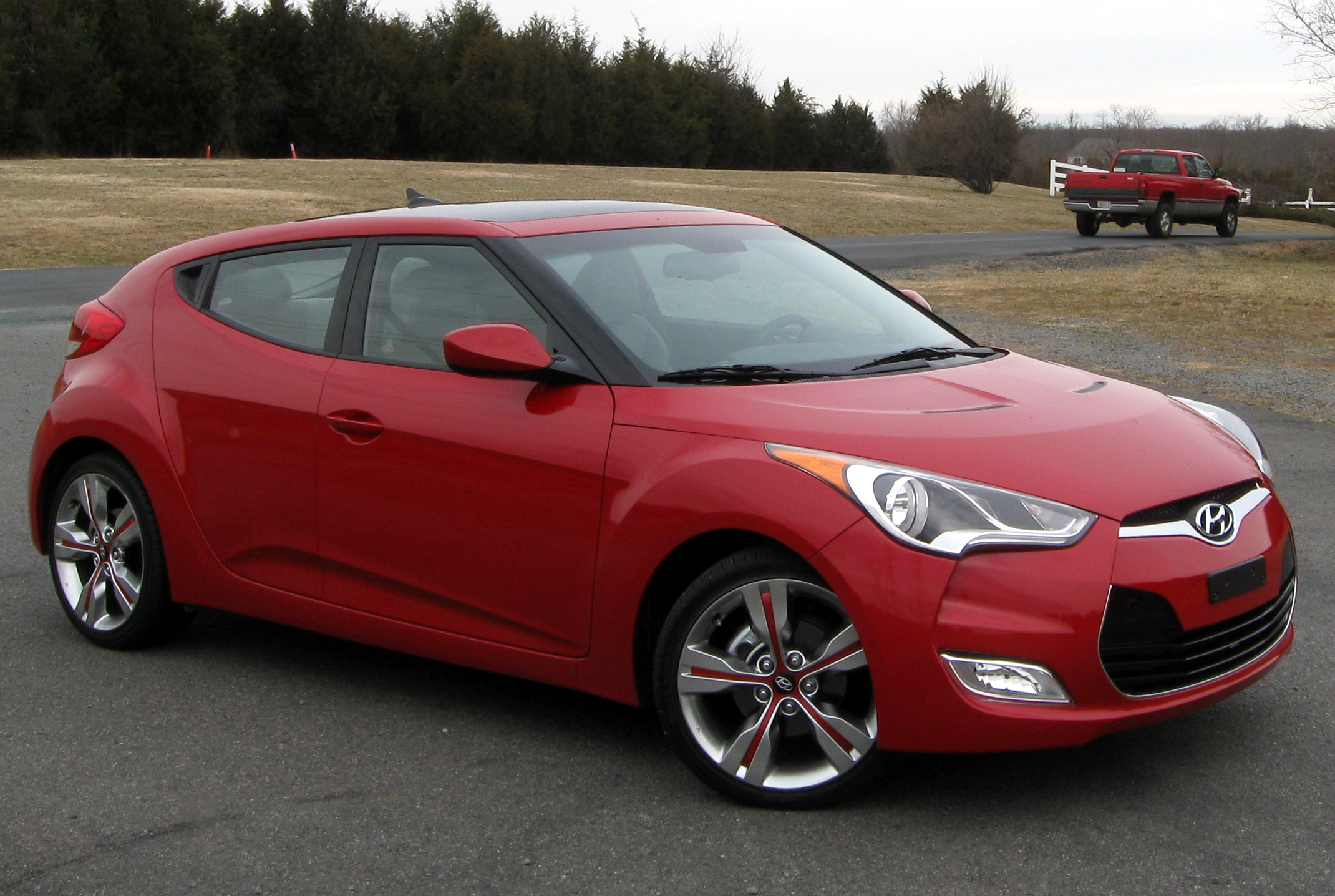 2012 Hyundai Veloster photographed in Centreville, Virginia, USA.